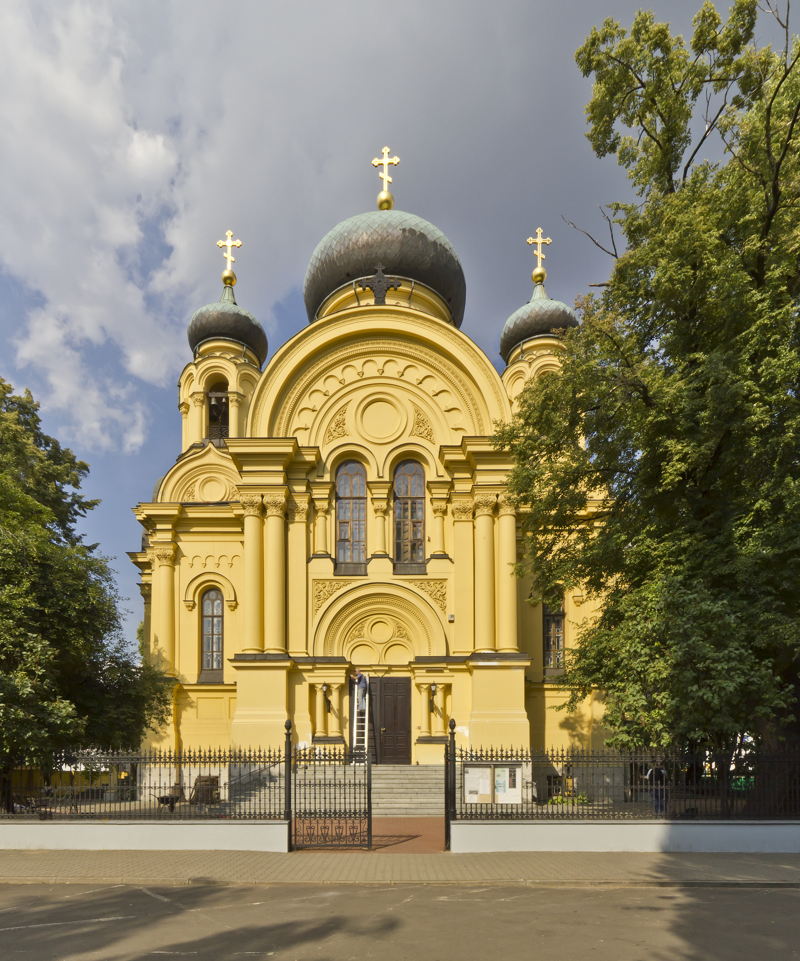 Russian Orthodox church of Mary Magdalene in Warsaw (Poland)